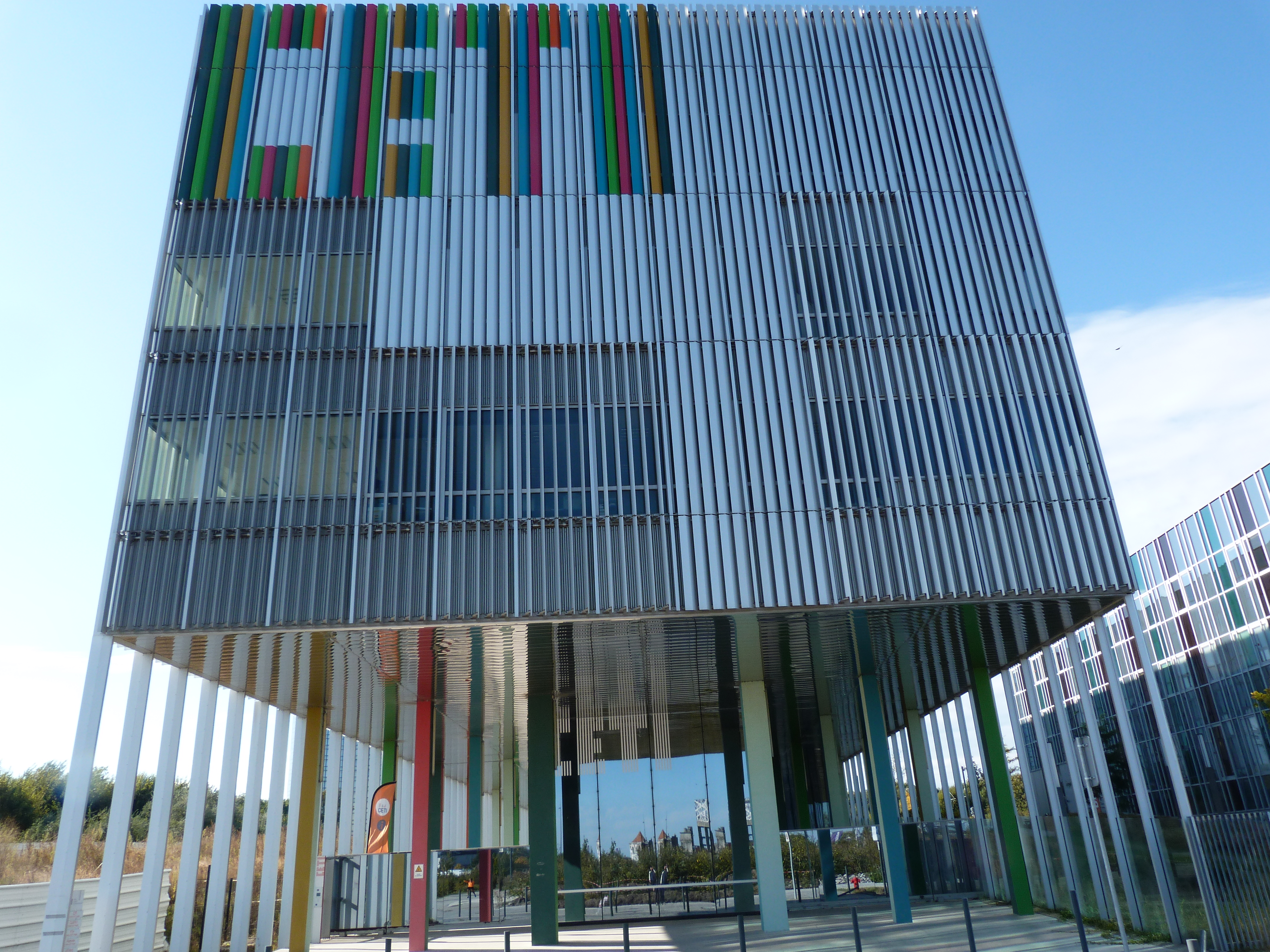 Frontage of CETI (European center for innovative textiles) In the Zone de l'union Conceived by the architects Luc Saison and Isabelle Menu